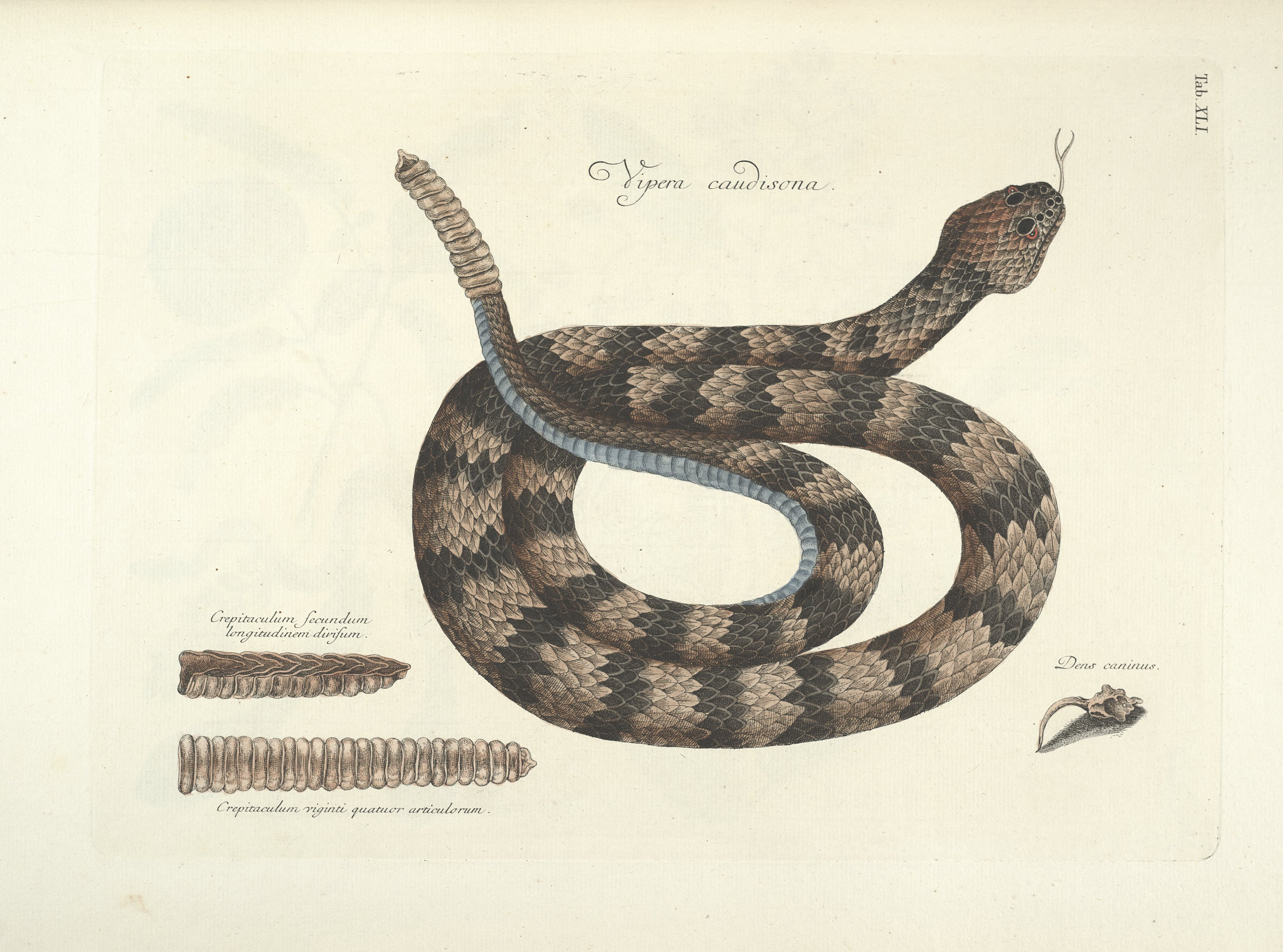 Mark Catesby (1743), Natural History of Carolina etc., vol 2, plate 41, with Vipera caudisona, the Timber Rattlesnake (Crotalus horridus).